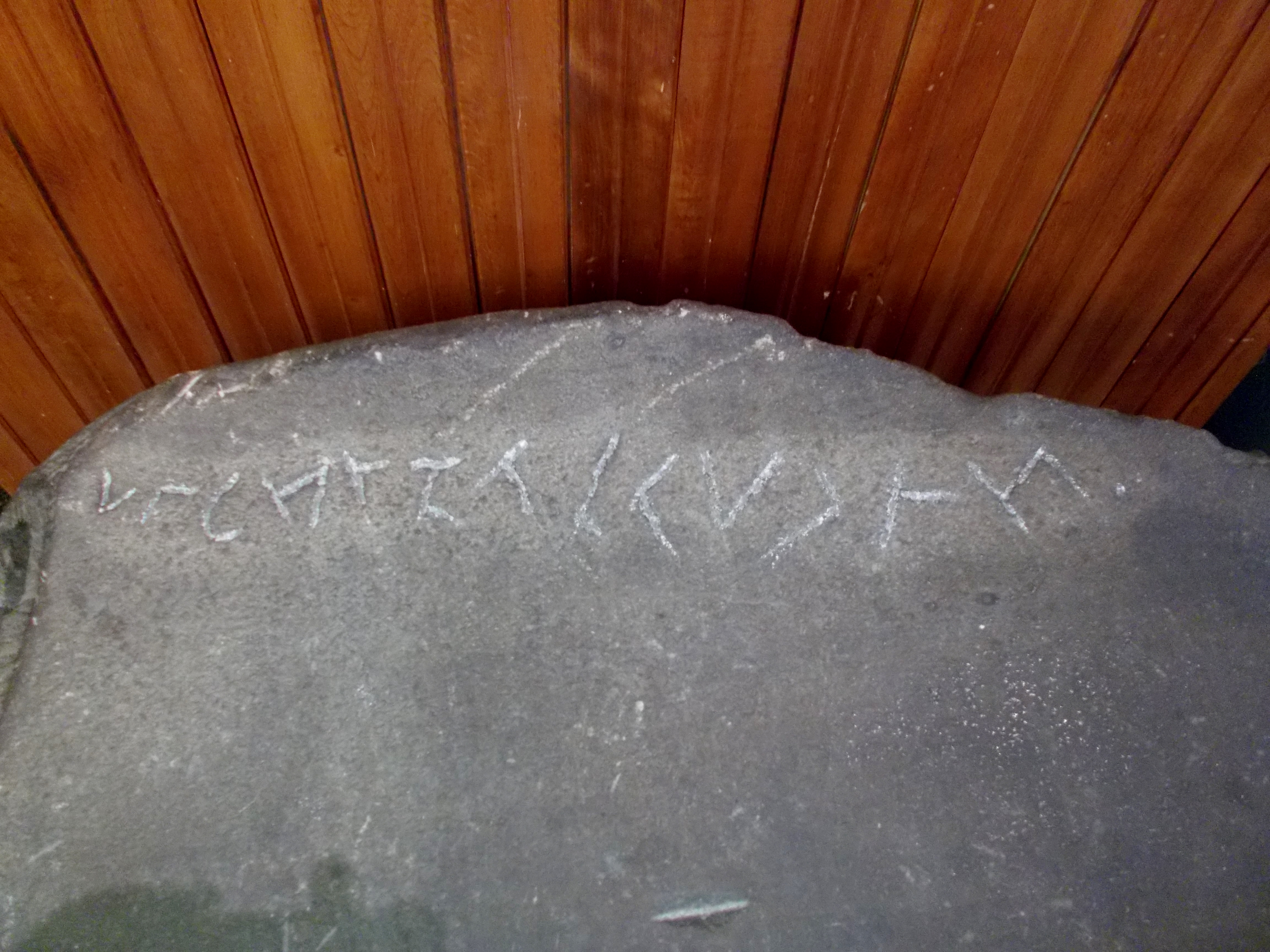 This photo is a closeup of the purported inscription on the Yarmouth Runic Stone